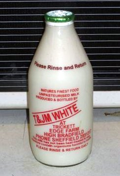 A bottle of green-top (raw, unpasturised) milk, showing the required health label: "this milk has not been heat-treated and may contain organisms harmful to health".